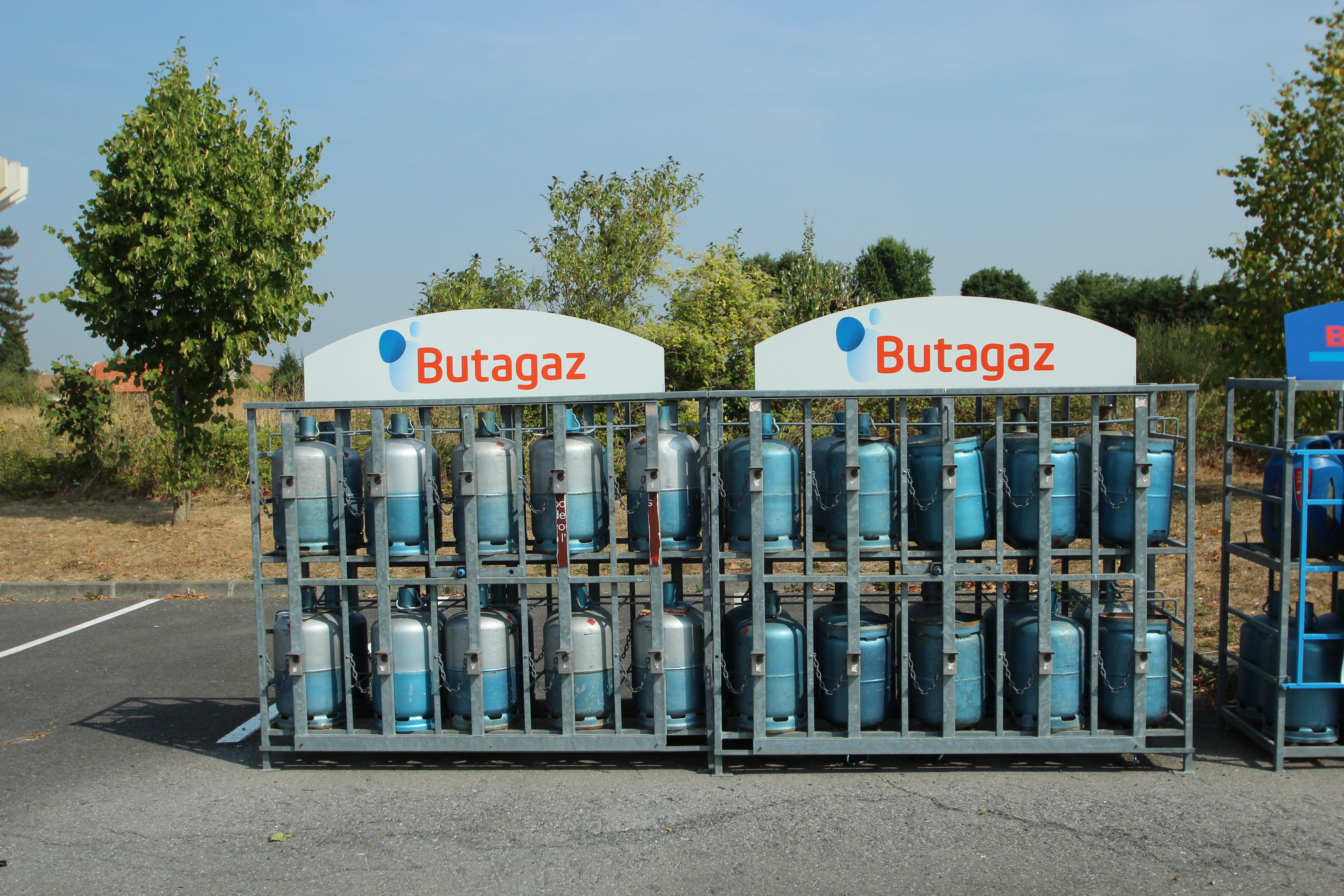 Carrefour Market in Gometz-la-Ville, France. This image was uploaded as part of L'Été des villes 2015.